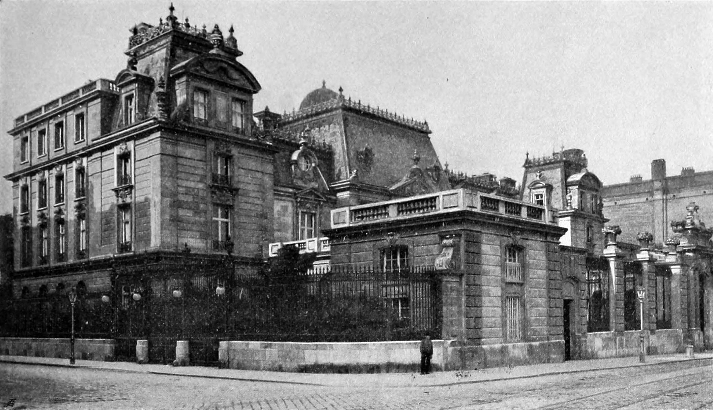 Palais Albert Rothschild, perspective view of the entrance front